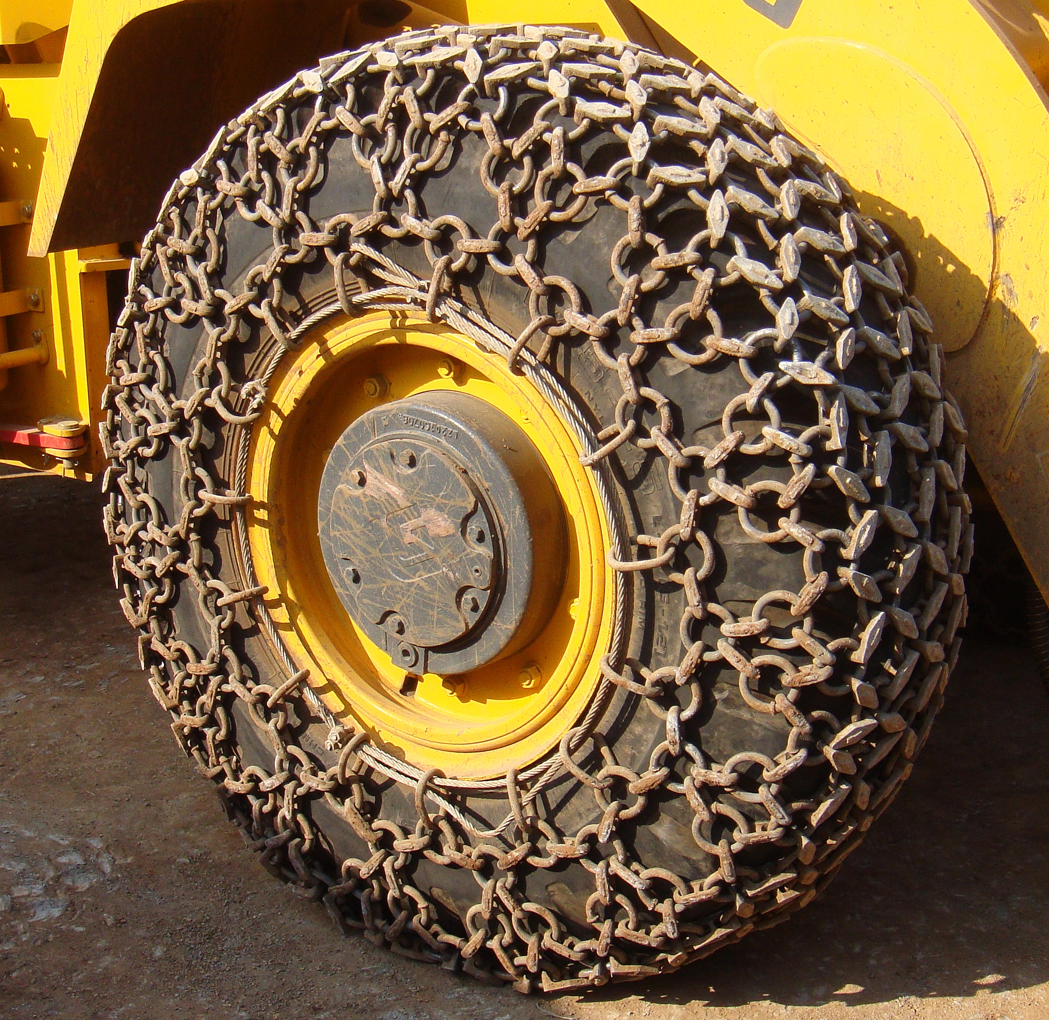 Traction chains on a wheel loader in Hainan, China